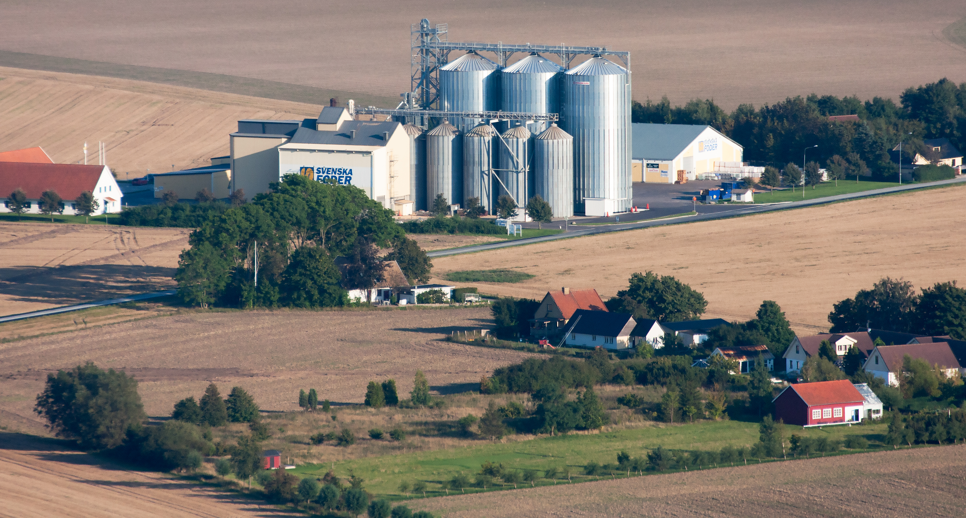 Svenska Foder in Knästorp, Staffanstorp Municipality, Sweden.